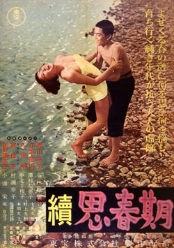 1953 Japanese movie poster for 1953 Japanese film Adolescence Part II (Zoku shishunki).